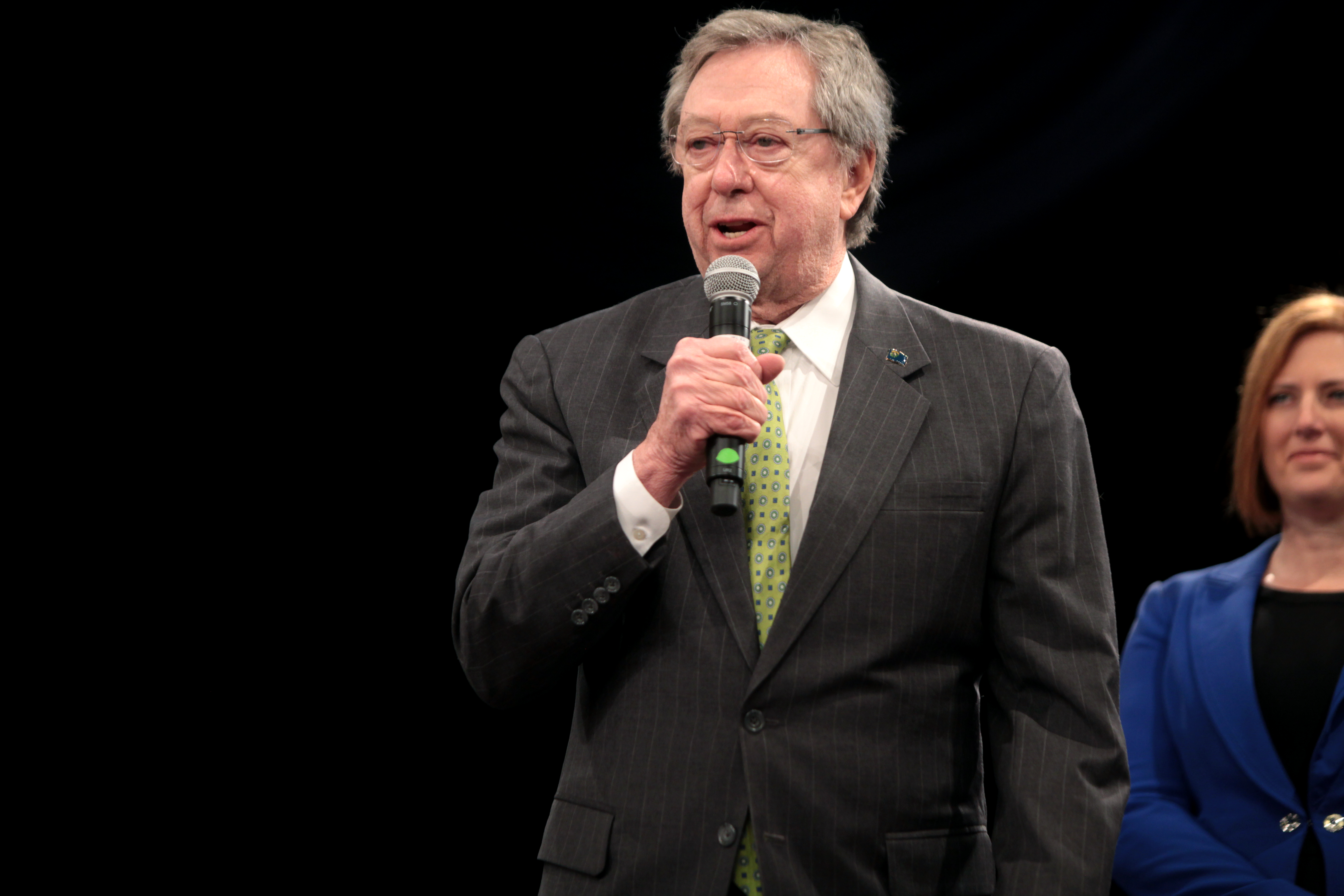 Former Governor Robert List speaking with supporters of U.S. Senator Marco Rubio at a campaign rally at the Silverton Hotel & Casino in Las Vegas, Nevada.